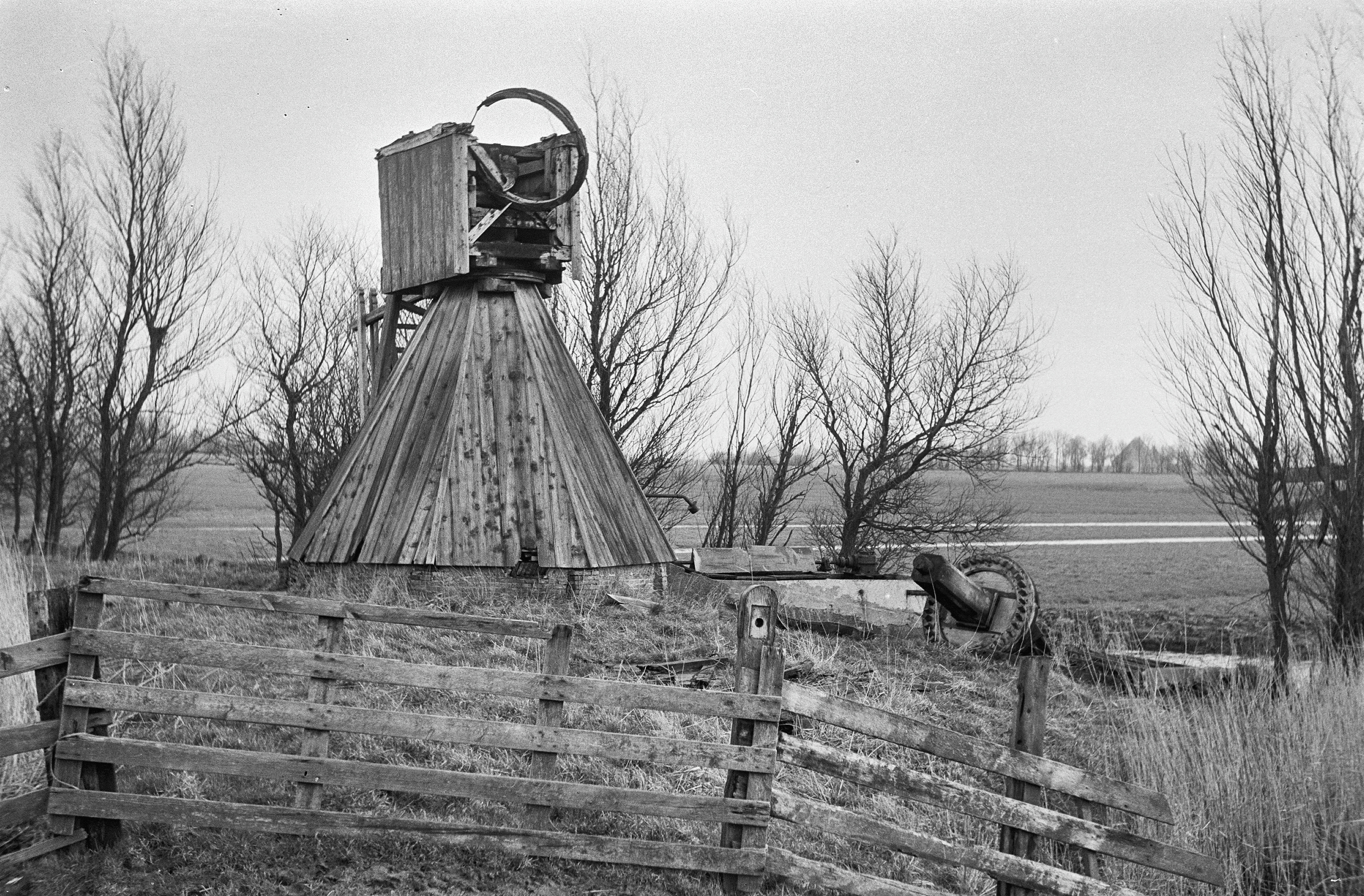 Spider's head mill Teetlum/Duiventil near Tzum after stormdamage in 1973. (foto: Rijksdienst voor het Cultureel Erfgoed)